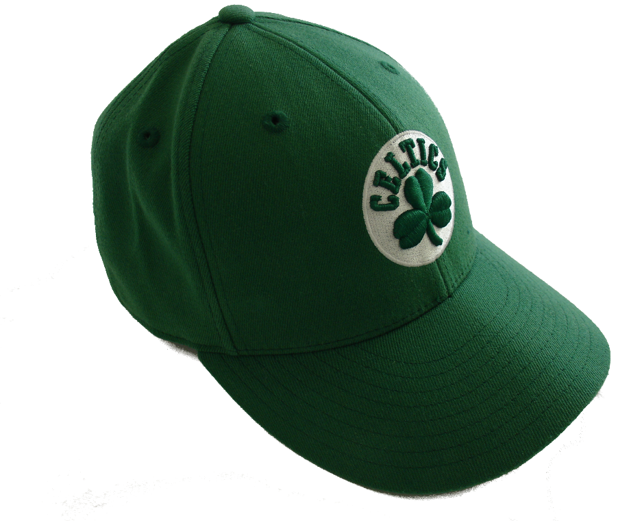 A picture of a Boston Celtics cap I own manufactured by Adidas. The background of the image was removed by using GIMP.